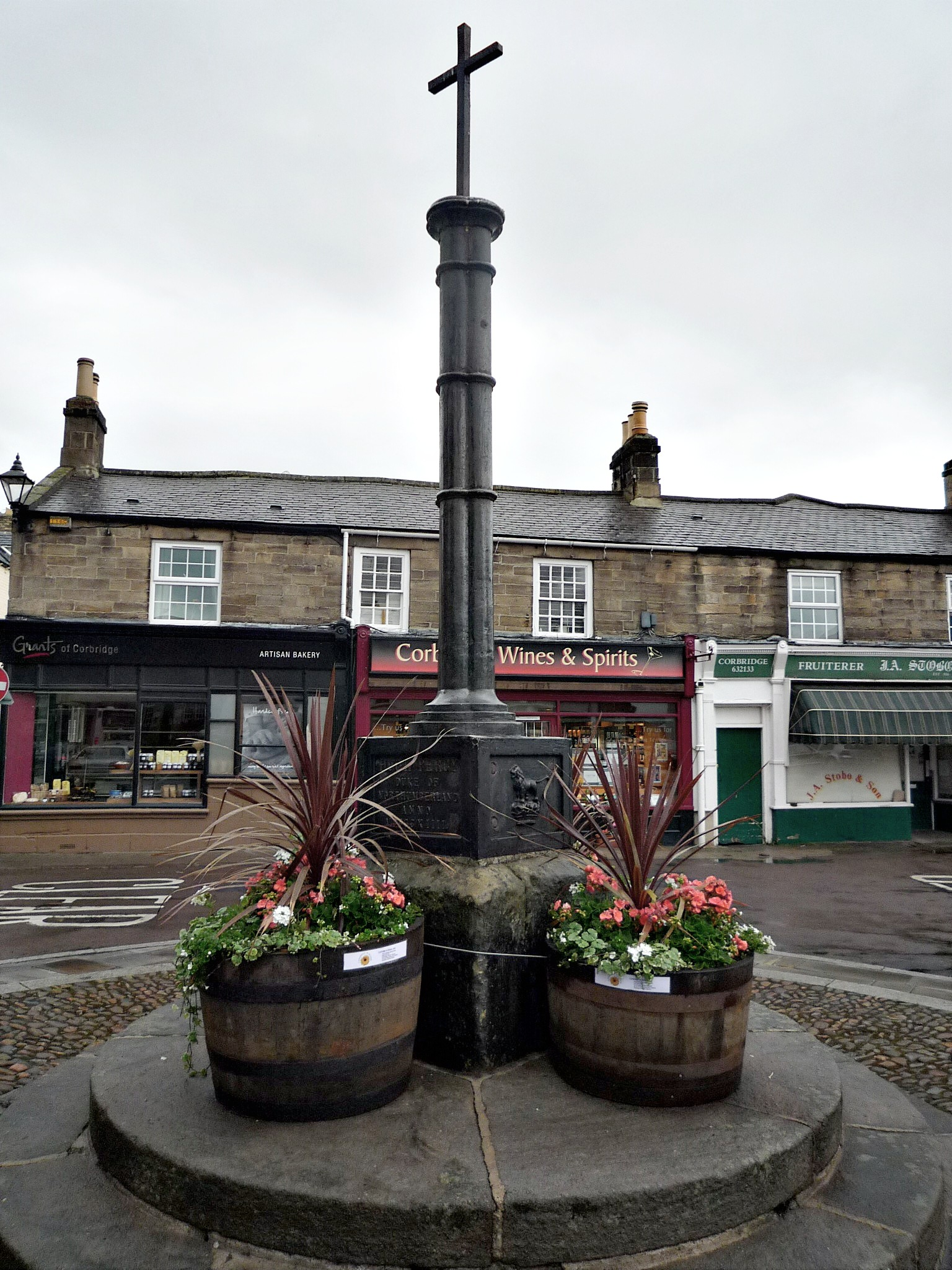 The cross in Market Place, Corbridge, Northumberland, England. An inscription on the base reads: Hugh Percy, Duke of Northumberland. Anno. MDCCCXIIII (1814). Entry on the PMSA website.